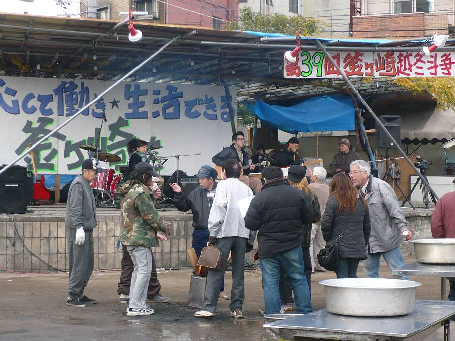 The 39th Kamagasaki Wintering Strike